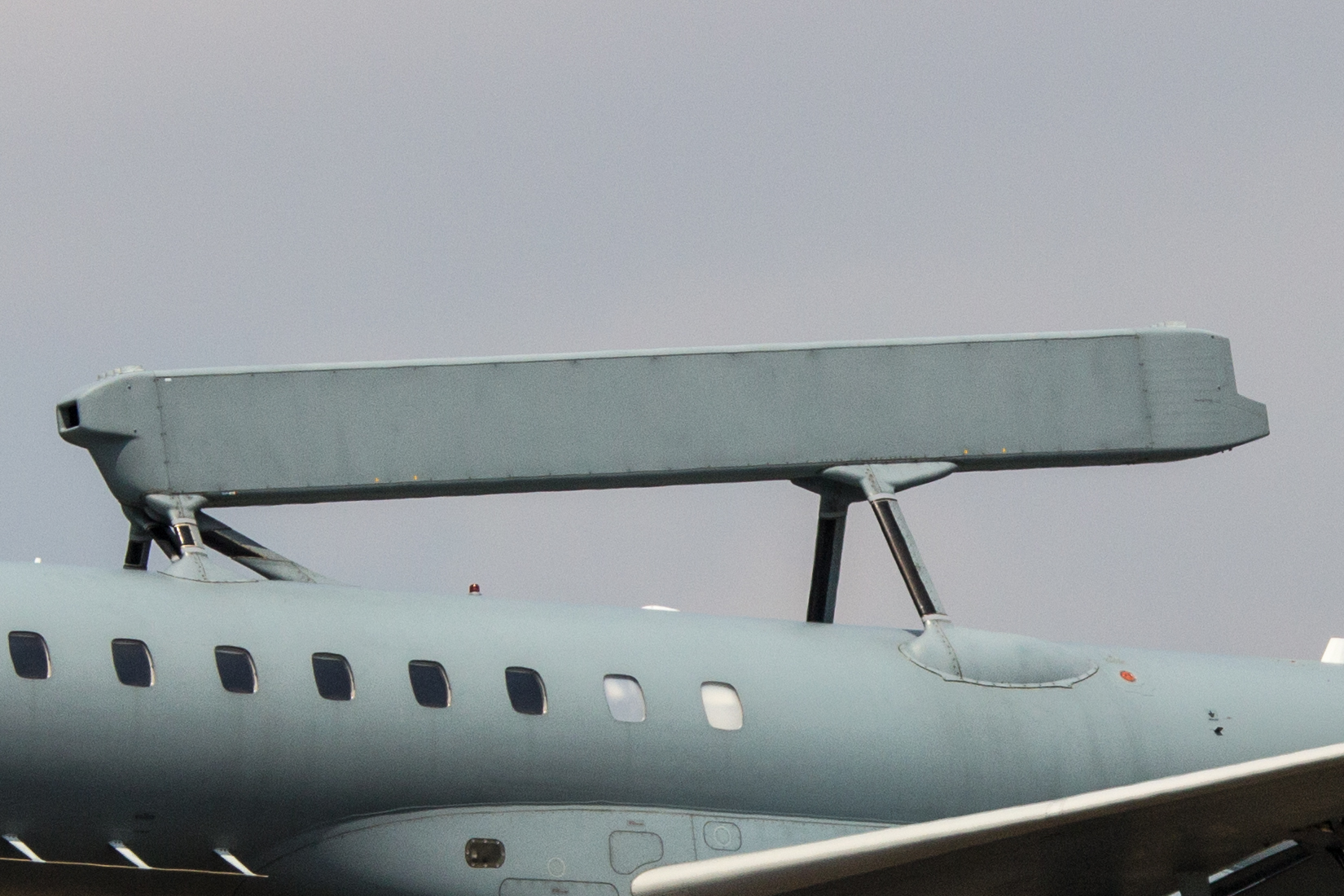 Royal International Air Tattoo 2013, Gloucestershire